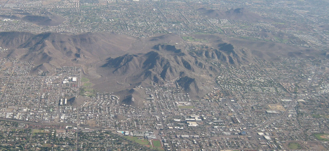 Oblique air photo of North Mountain and Shaw Butte Preserves, Phoenix, Arizona, facing north on August 1, 2011. Wing of aircraft in upper left.